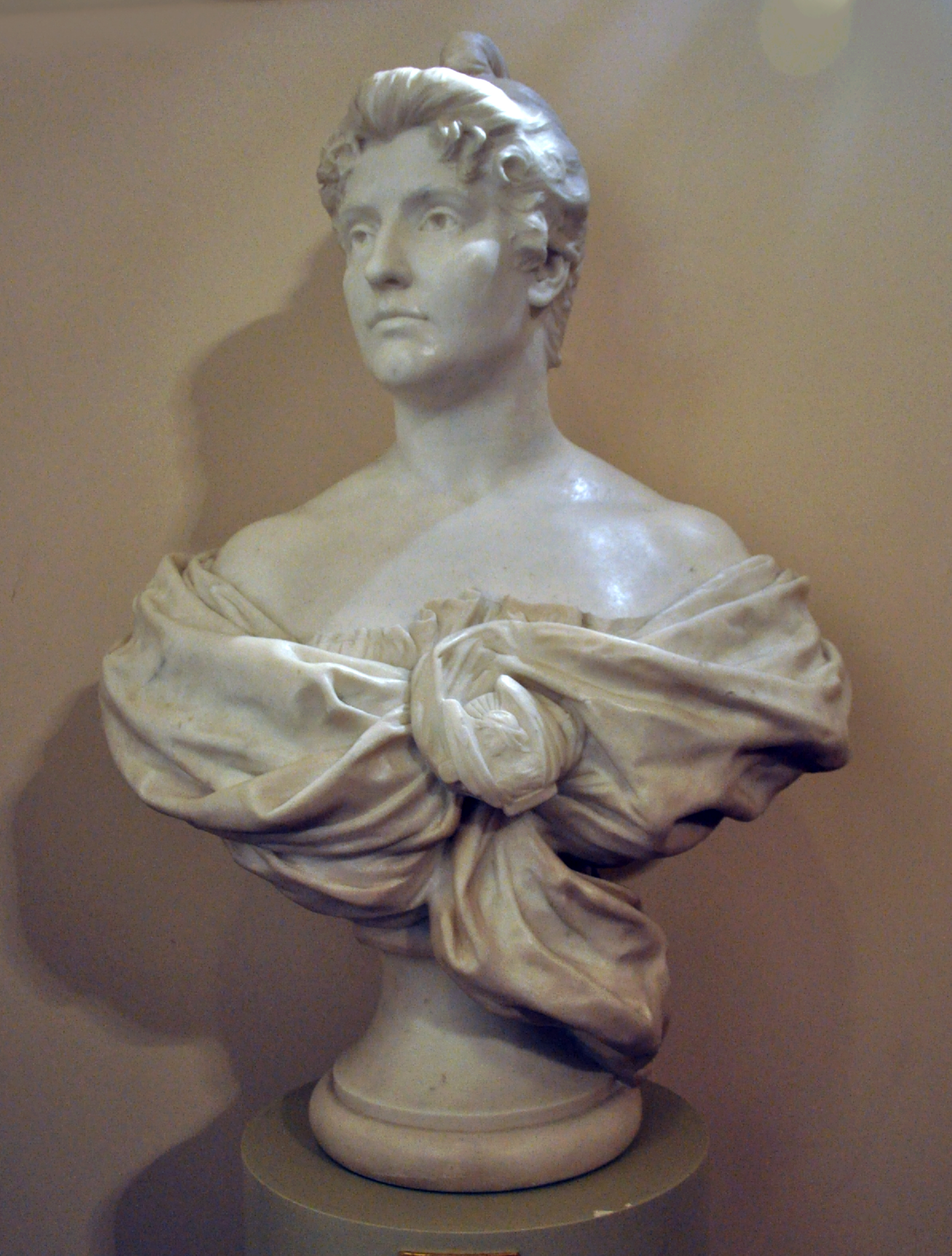 London, Royal Opera House, Covent Garden, bust of Dame Nellie Melba, by Bertram Mackennal (1863–1931)